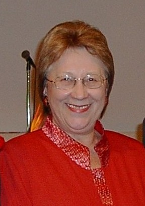 Photograph of Jennie George, Australian Trade Unionist and Labor Party representaive for the Federal seat of Throsby, NSW.